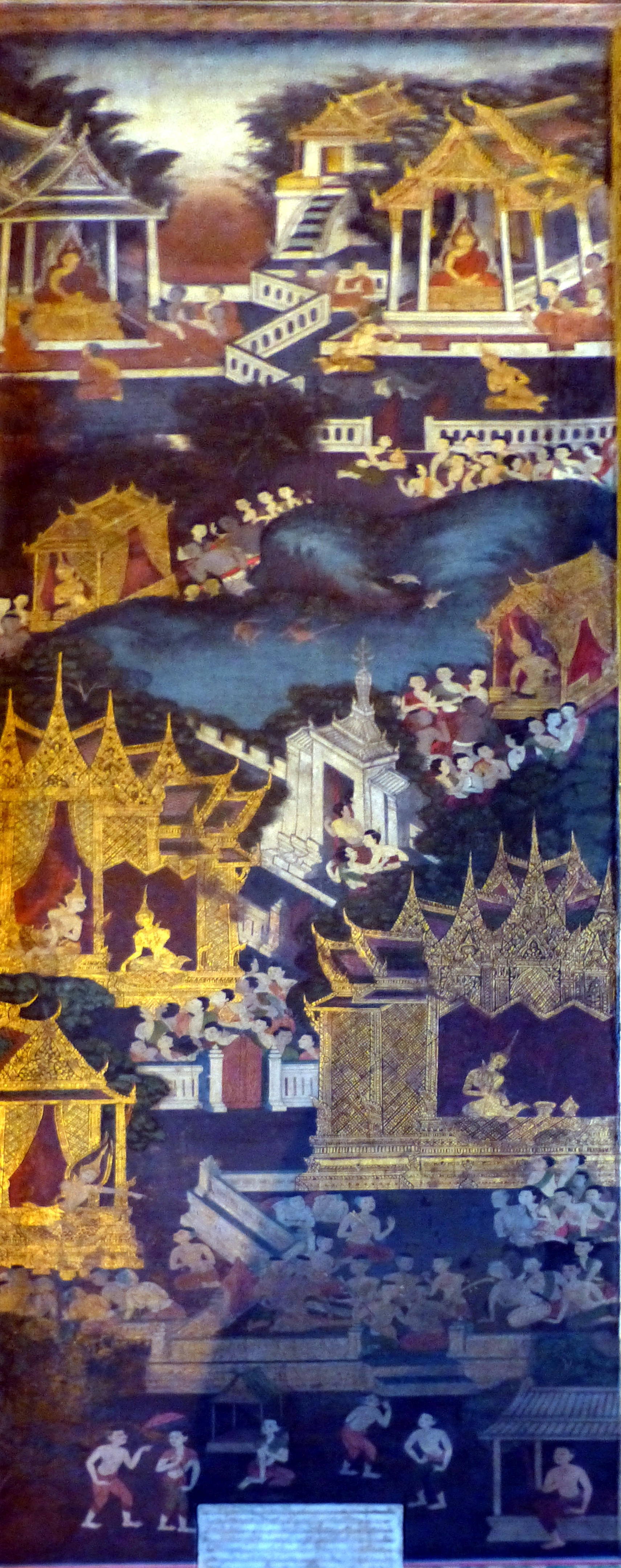 002 Khema, Wat Pho by Anandajoti Bhikkhu